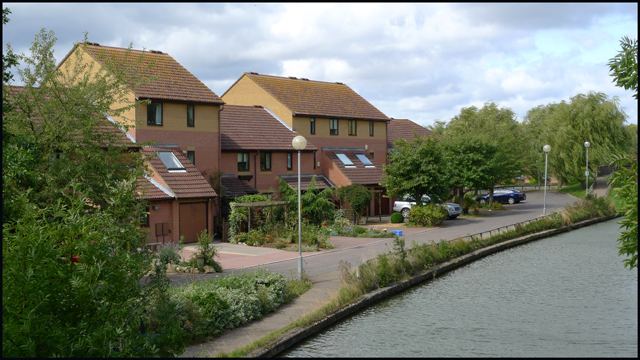 Canalside Housing Between the Peartree Bridge Marina and the Grand Union Canal, Milton Keynes.